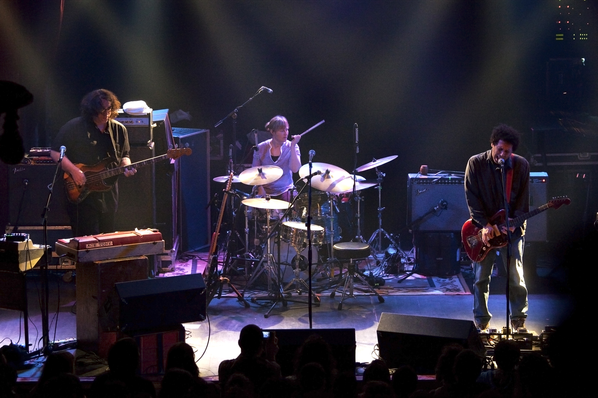 Yo La Tengo - Sala Apolo 2010